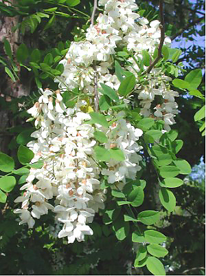 Robina pseudoacacia bloom April 22, 2003 Hemingway, SC Image taken by me, released under GFDL Pollinator 00:59, 28 Feb 2004 (UTC)